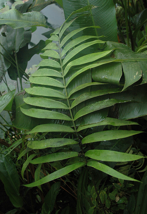 leave of 5 years old plant in City of Prague Botanical Garden